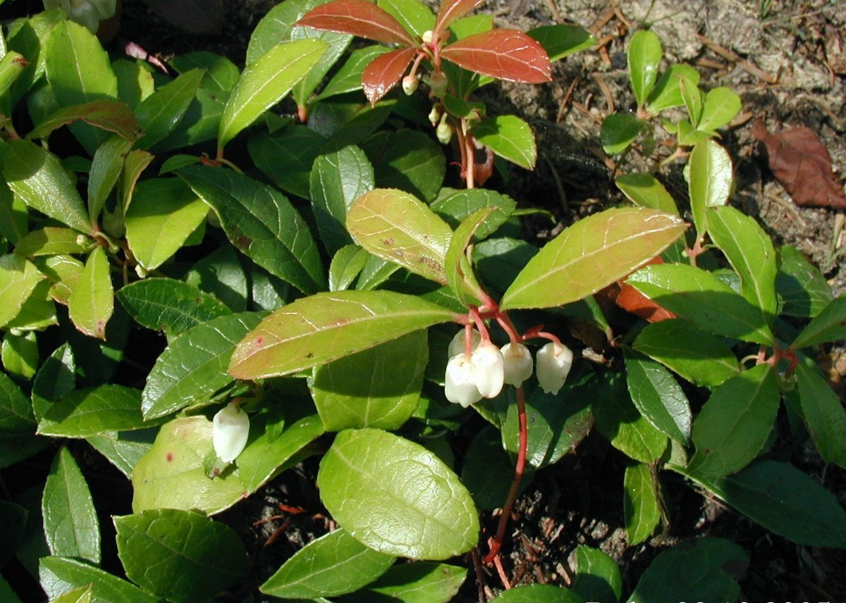 Gaultheria procumbens: Habit with flowers